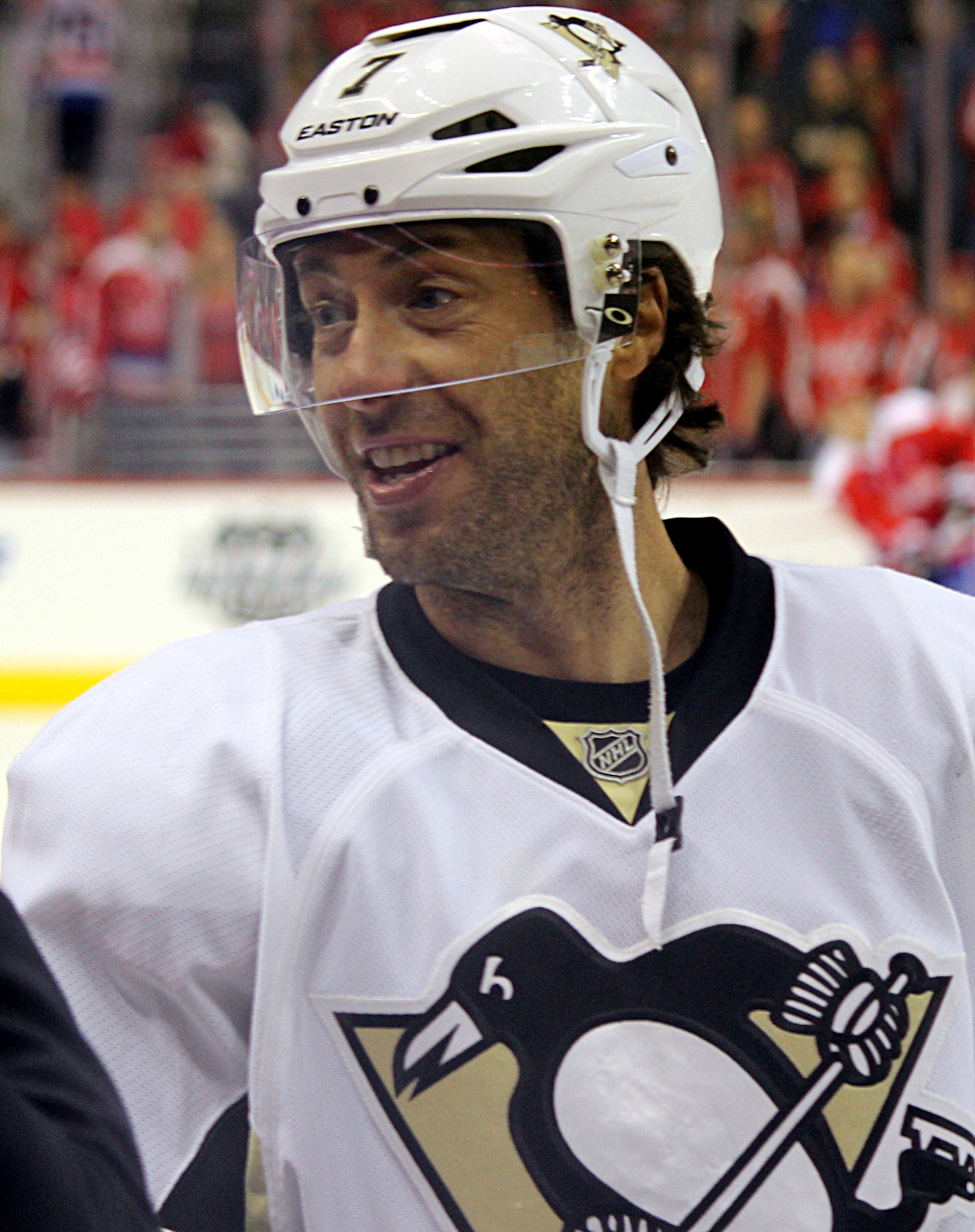 Pittsburgh Penguins forward Matt Cullen during a game against the Washington Capitals, March 1, 2016, at Verizon Center in Washington, D.C.